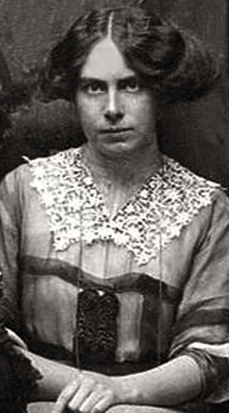 Antonia Anna "Toni" Wolff (18 September 1888 — 21 March 1953) was a Swiss Jungian analyst and a close associate of Carl Jung. This crop of a larger image is from the 1911. It is not the highest resolution, but provided for historical reasons.